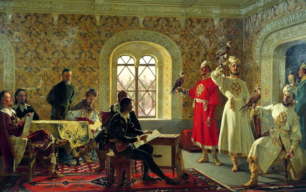 The Italian envoy Calvucci draws the favorite falcons of Tsar Alexei Mikhailovichlabel QS:Len,"The Italian envoy Calvucci draws the favorite falcons of Tsar Alexei Mikhailovich"label QS:Luk,"Італійський посланник Кальвуччі змальовує улюблених соколів царя Олексія Михайловича"